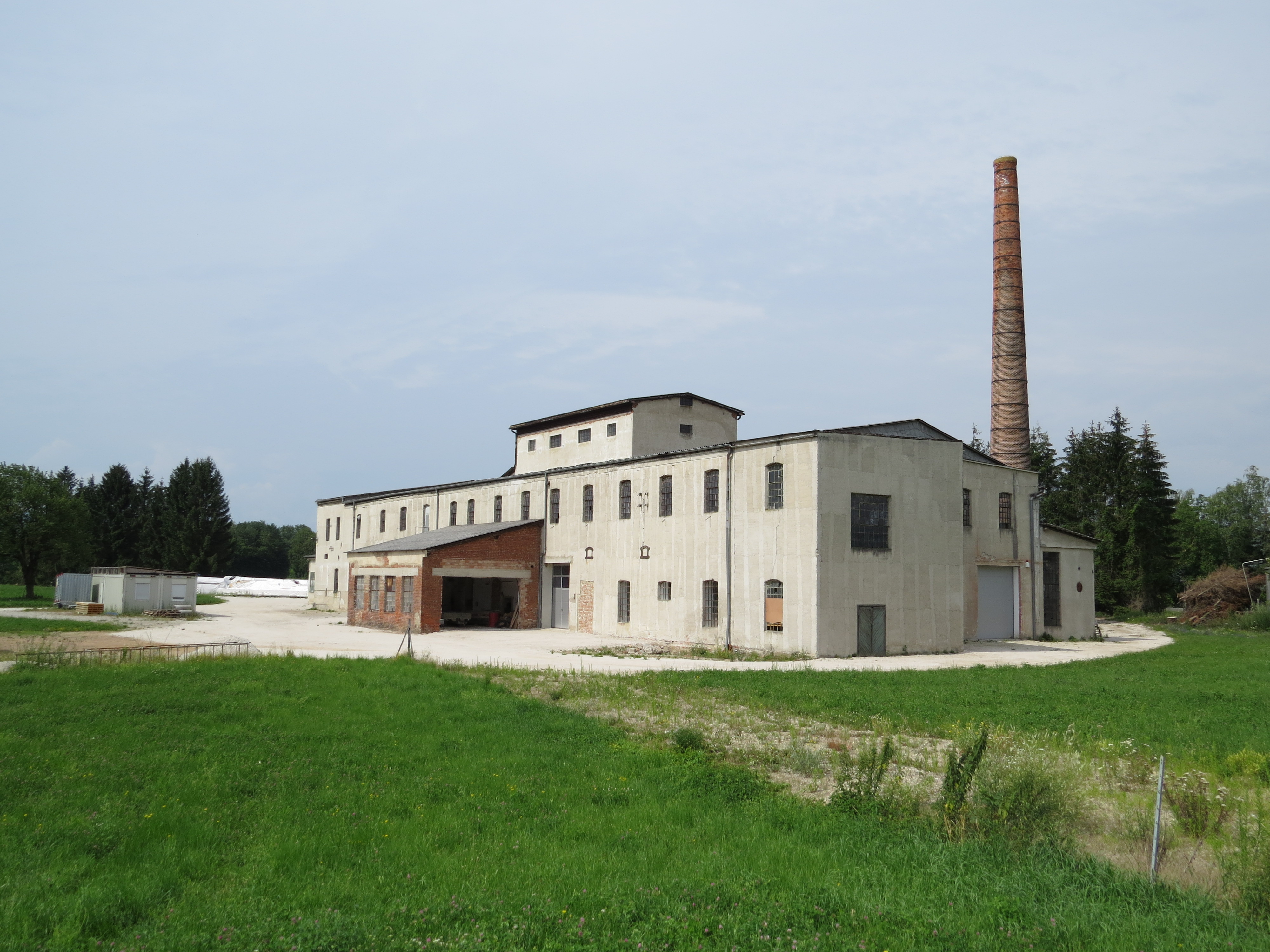 Former Papierfabrik Mahler OHG in Rennersdorf, Ober-Grafendorf, Austria